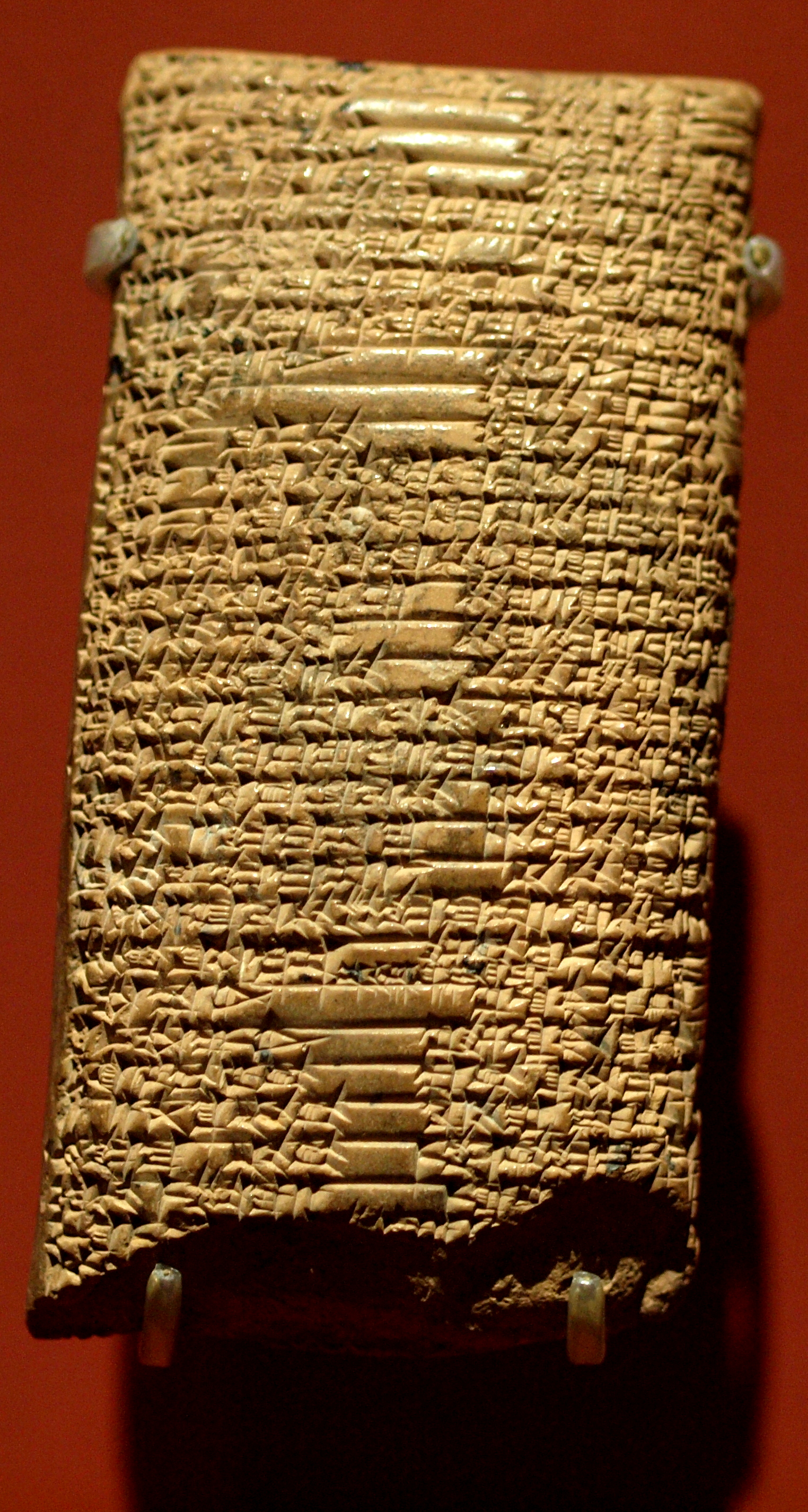 Tablet relating to the myth of the god Dumuzi Laments of the amorrit period around 2000-1600 BC. Terracotta Museum of the Louvre AO 3023